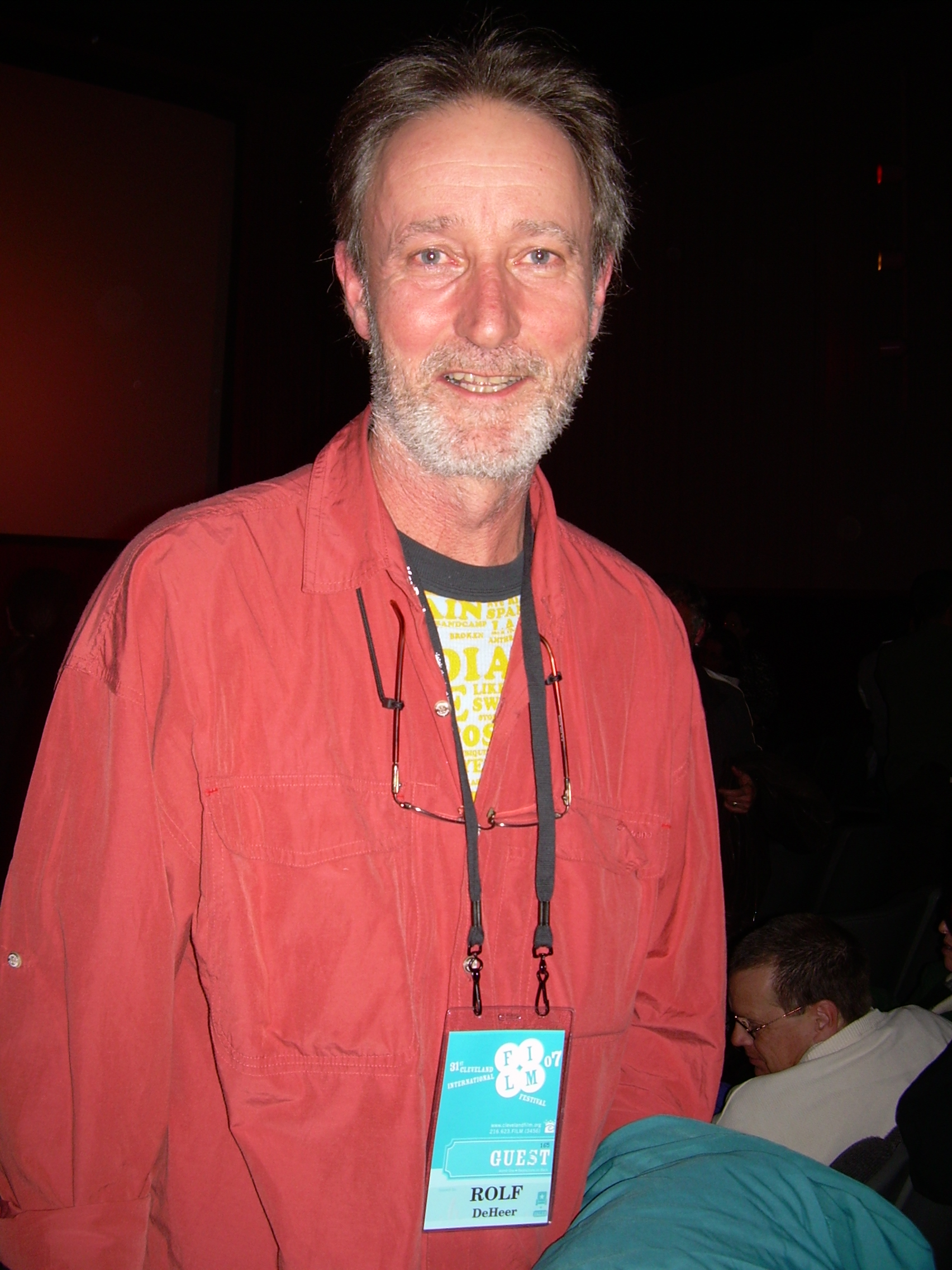 Rolf de Heer at Cleveland Film Festival March 18th 2006